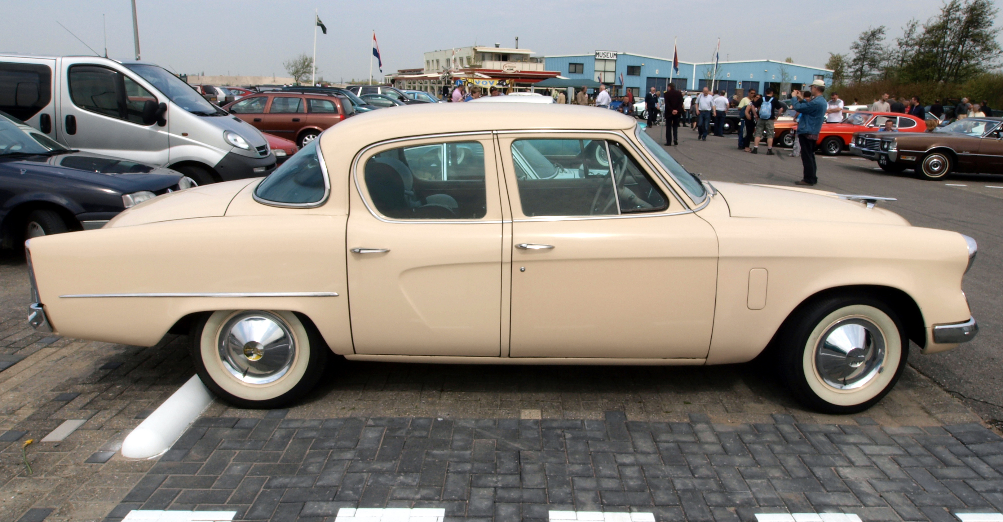 Photographed at Valkenburg, The Netherlands. OLYMPUS DIGITAL CAMERA